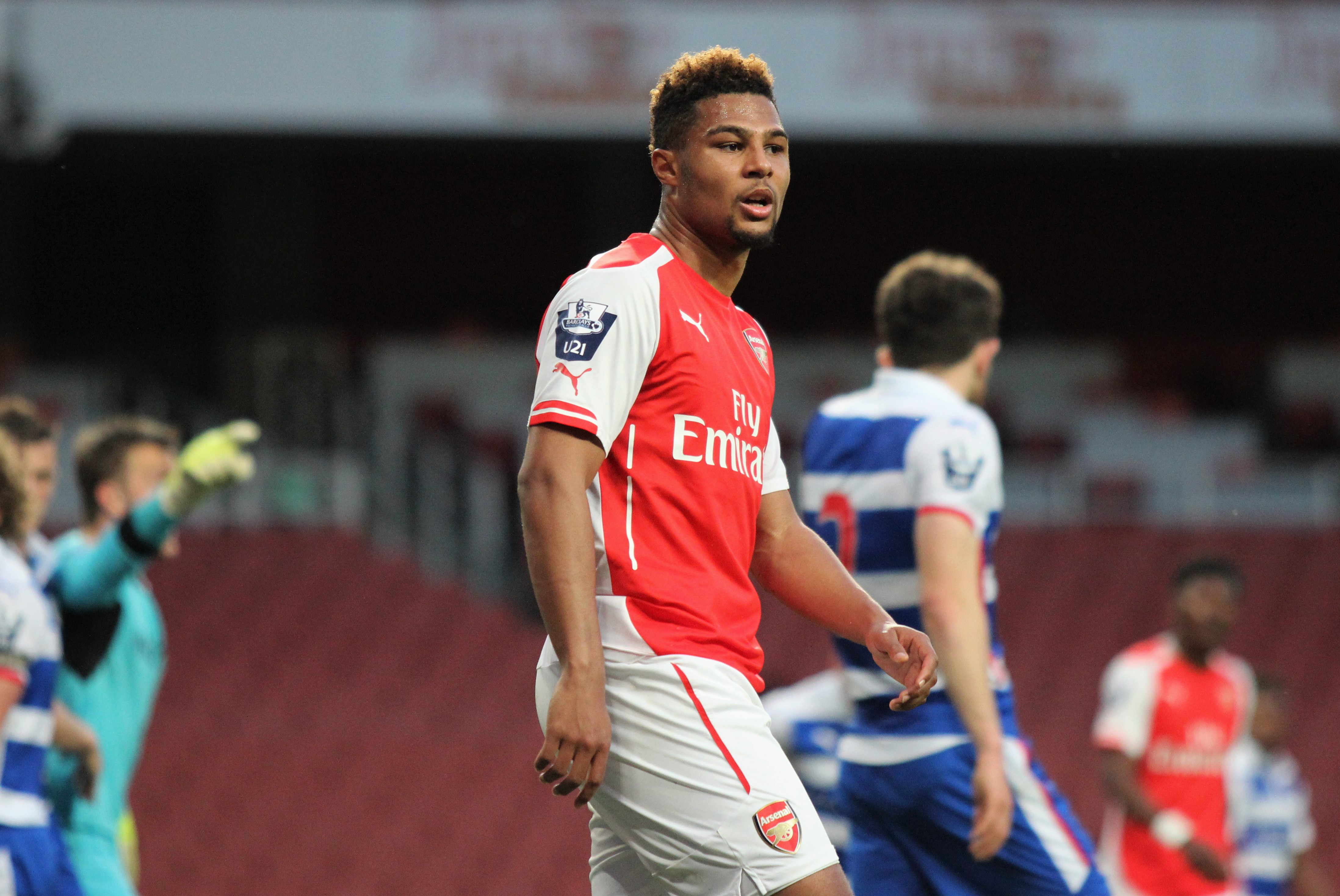 Serge Gnabry of Arsenal during the game against Reading.